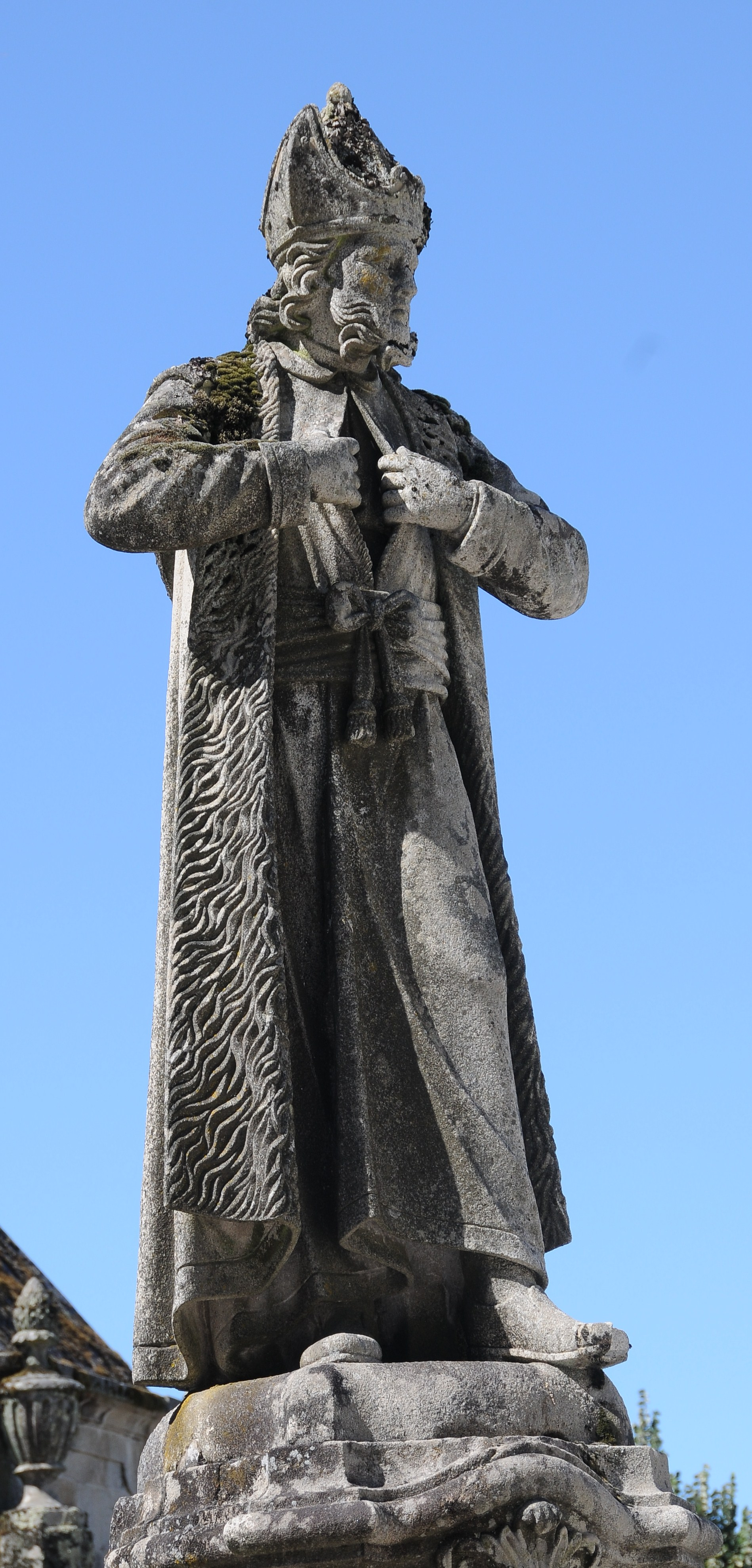 Statue of Caiaphas in Bom Jesus, Braga, Portugal